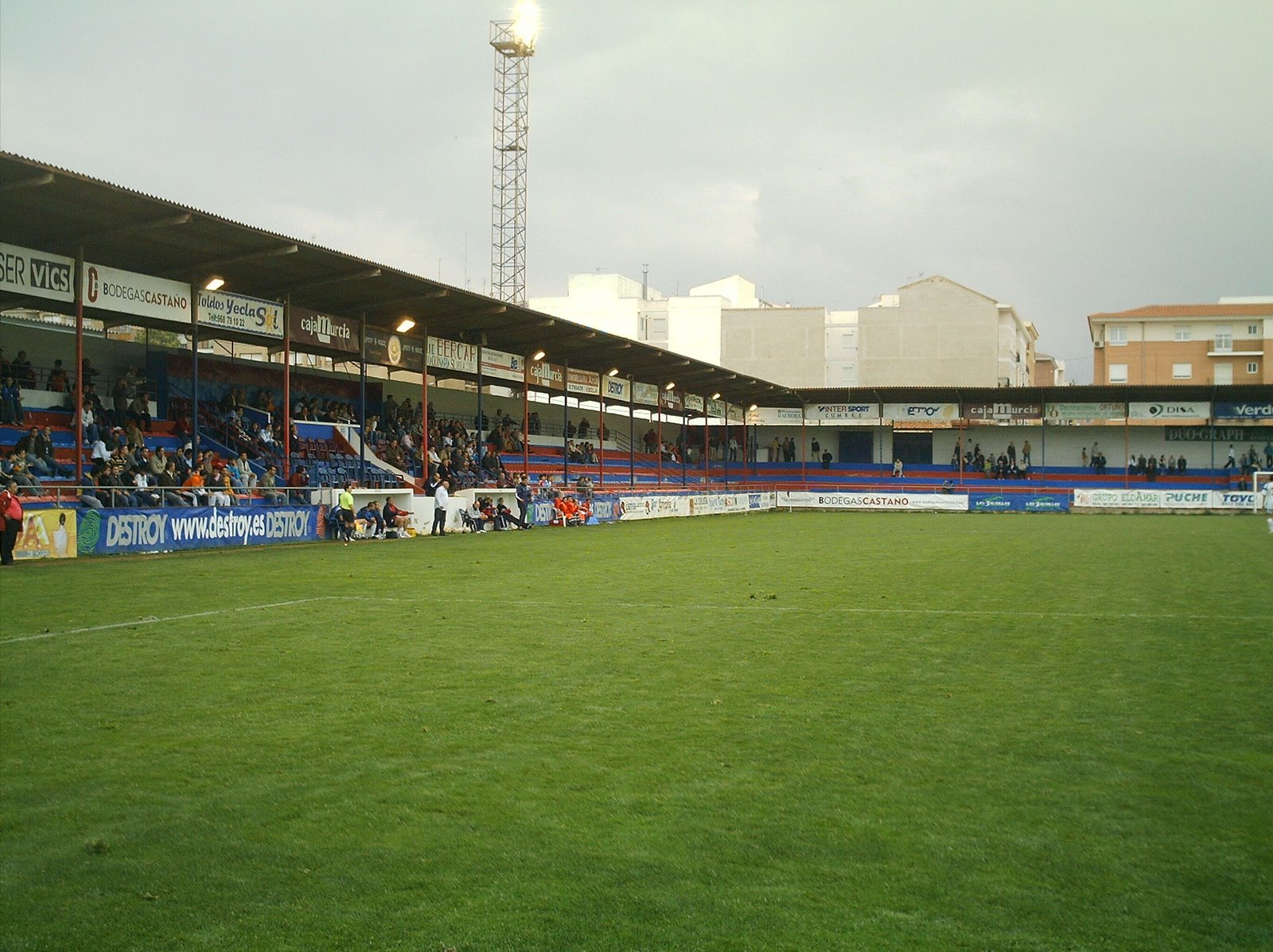 La Constitución Stadium. Yecla (Murcia), Spain.